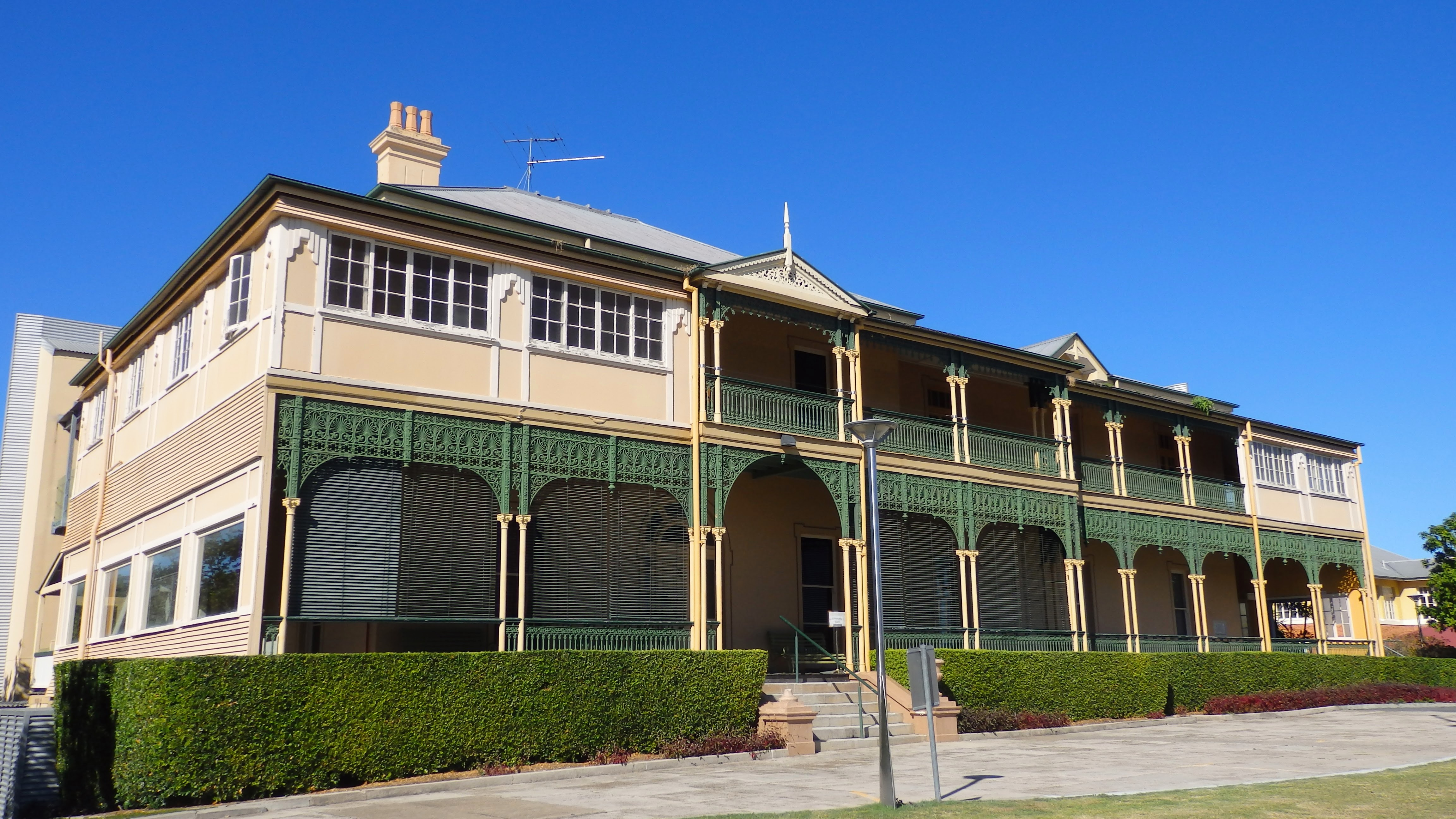 Queen Alexandra Home taken in May, 2016